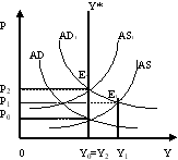 Macroeconomic model of stagflation